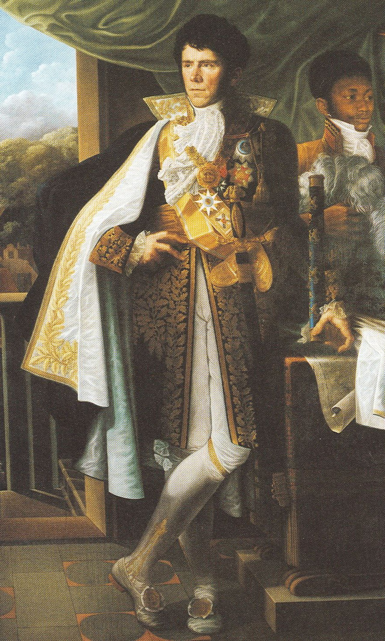 Count Dumonceau with the collar of the Order of the Union, Kingdom of Holland 1807, detail om het schilderij om de een artikel over ridderorden te illustreren.